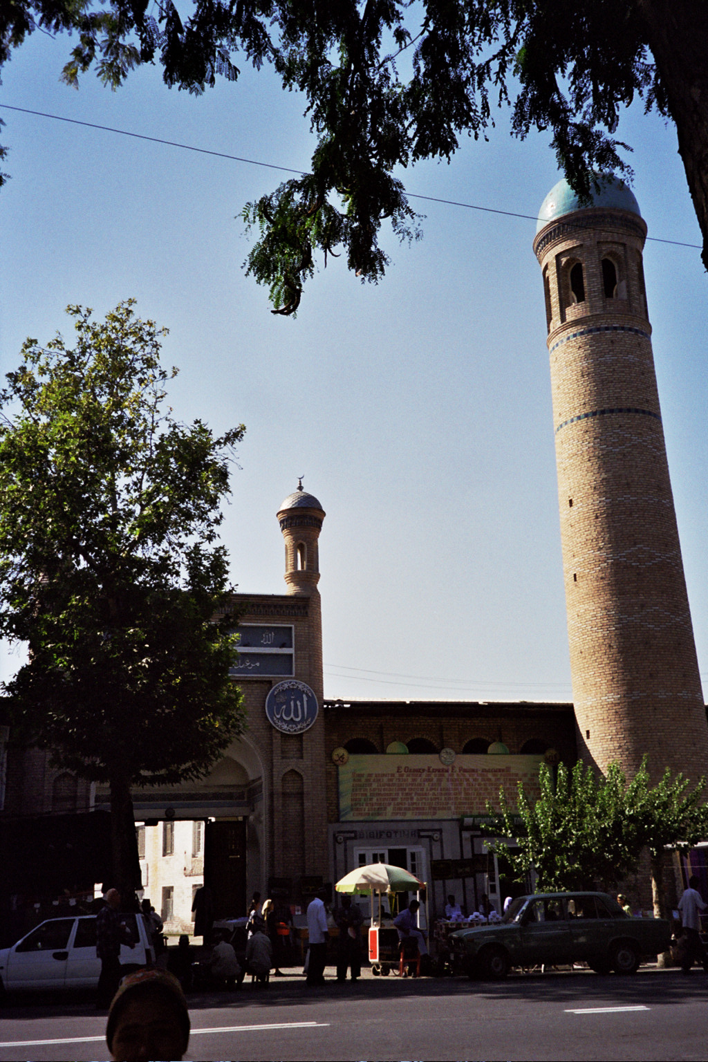 this was the best i could do to get the whole thing in the photo (Khonakhan Mosque, Margilan